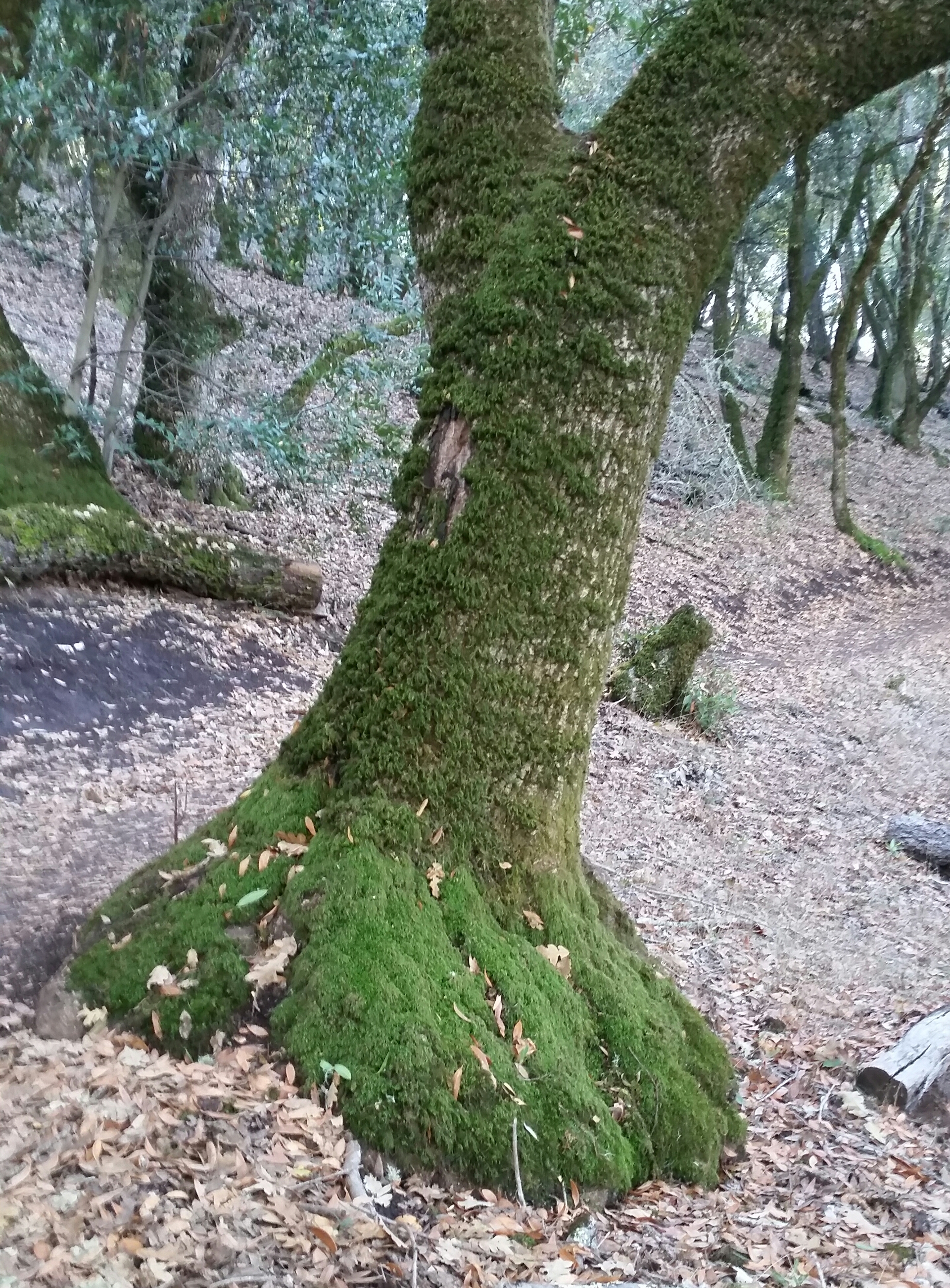 Lignotuber at the base of a California Bay tree (Umbellularia californica) in North Sonoma Mountain Regional Park, Sonoma County, California.